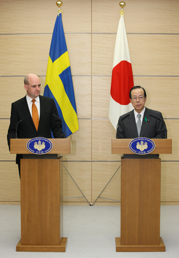 Photograph of the joint press conference in Japan-Sweden Summit, 2008.